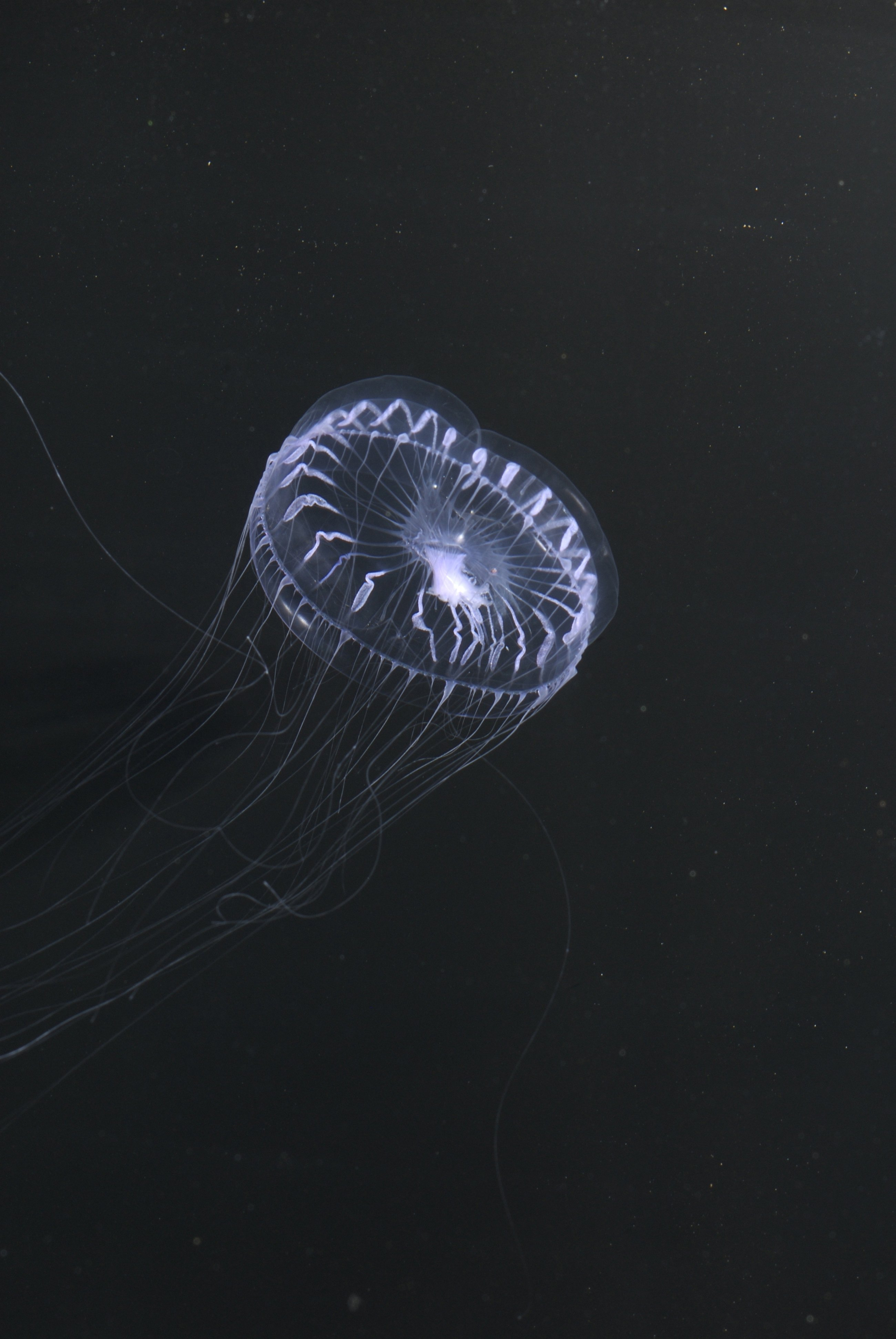 A jellyfish in the genus Aequorea swims in the planktonreisel. A bluewater scuba diver caught this 50 millimeter diameter medusa in a plastic jar and carried it back to the surface research vessel for further study. Philippine Islands, Celebes Sea.